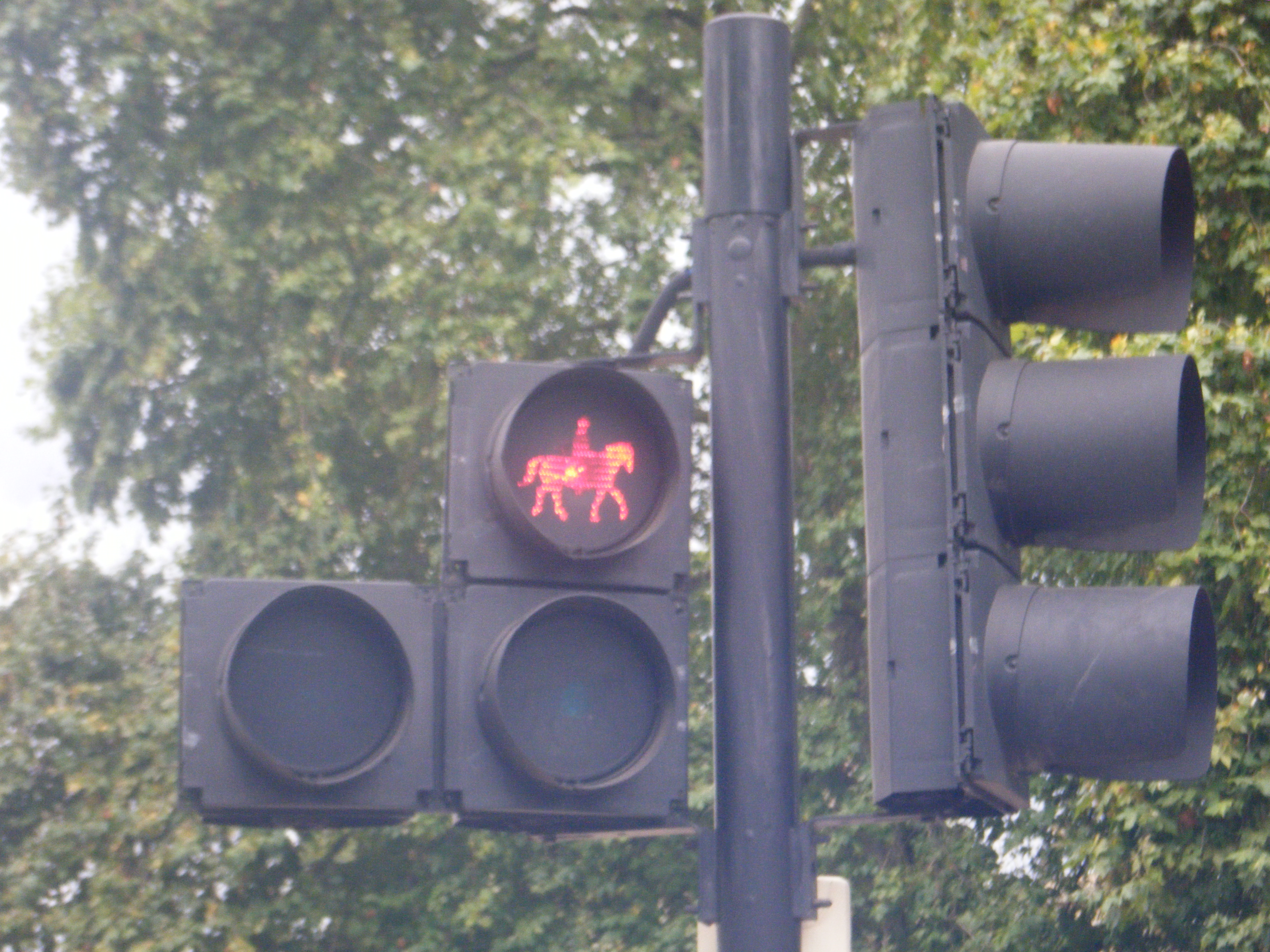 Horse traffic light